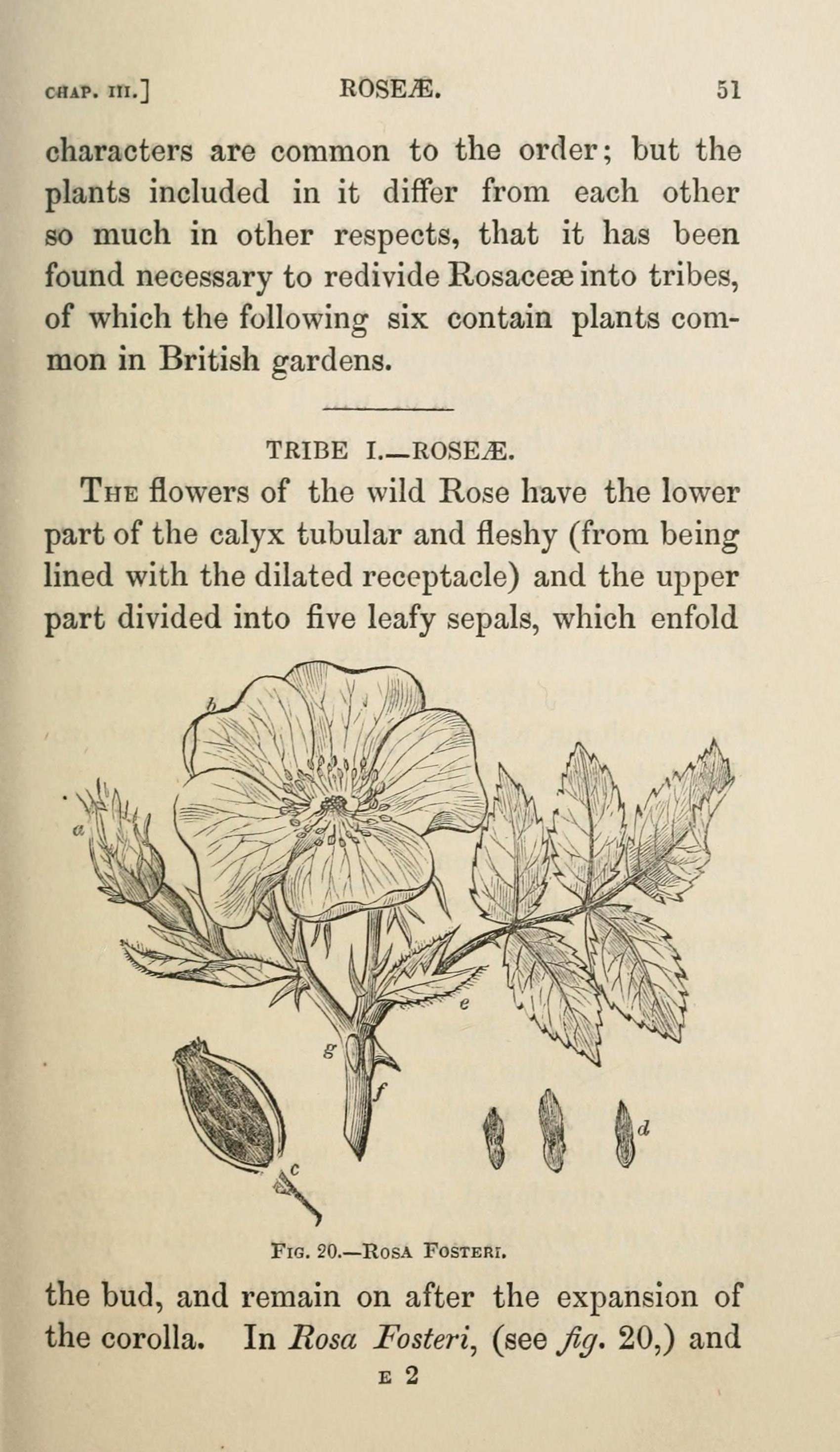 Botany for ladies; or, A popular introduction to the natural system of plants, according to the classification of De Candolle. By Mrs. Loudon.